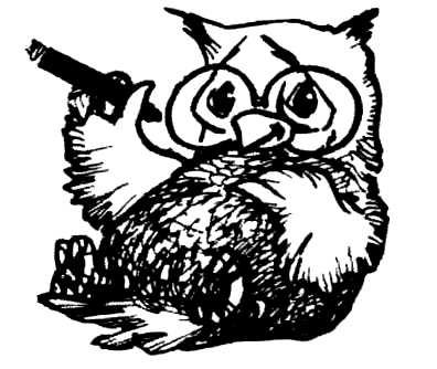 The "'Old Owl' is The Yale Record's congenial, possibly sozzled mascot "who tries to steer the staff towards a light-hearted appreciation of life and the finer things in it."